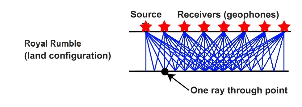 A complete geometry configuration (usually set up in land acquisitions) in which every source is recorded by all receivers and every receiver records all the sources.